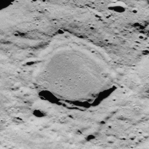 Oblique view of Schaeberle crater, on the moon, facing east. From Apollo 17 mapping camera during trans-Earth injection.